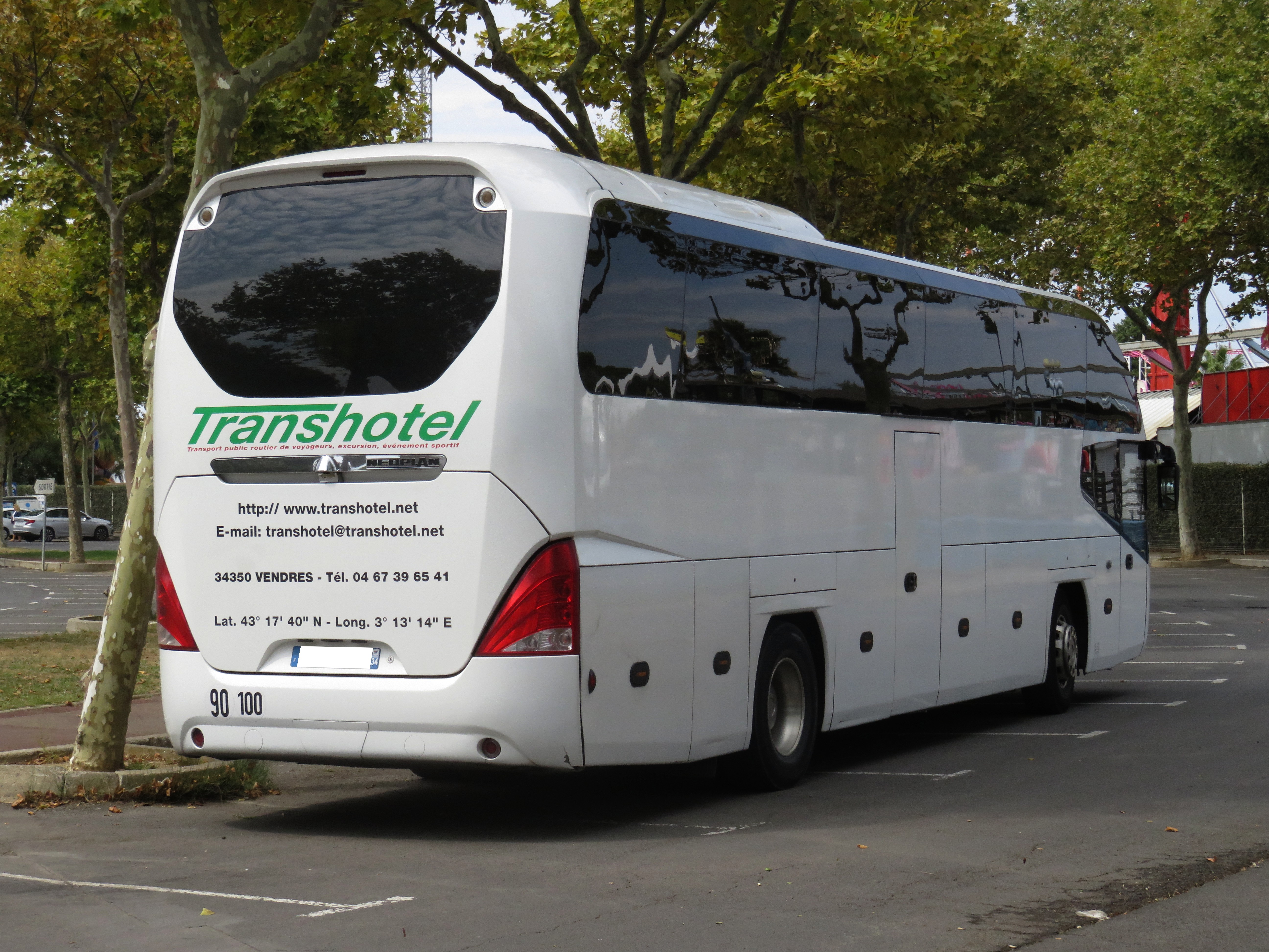 A Neoplan Cityliner (Transhotel) parked in the Rue des Sans-Soucis (Le Cap d’Agde, France) on August 25, 2018.